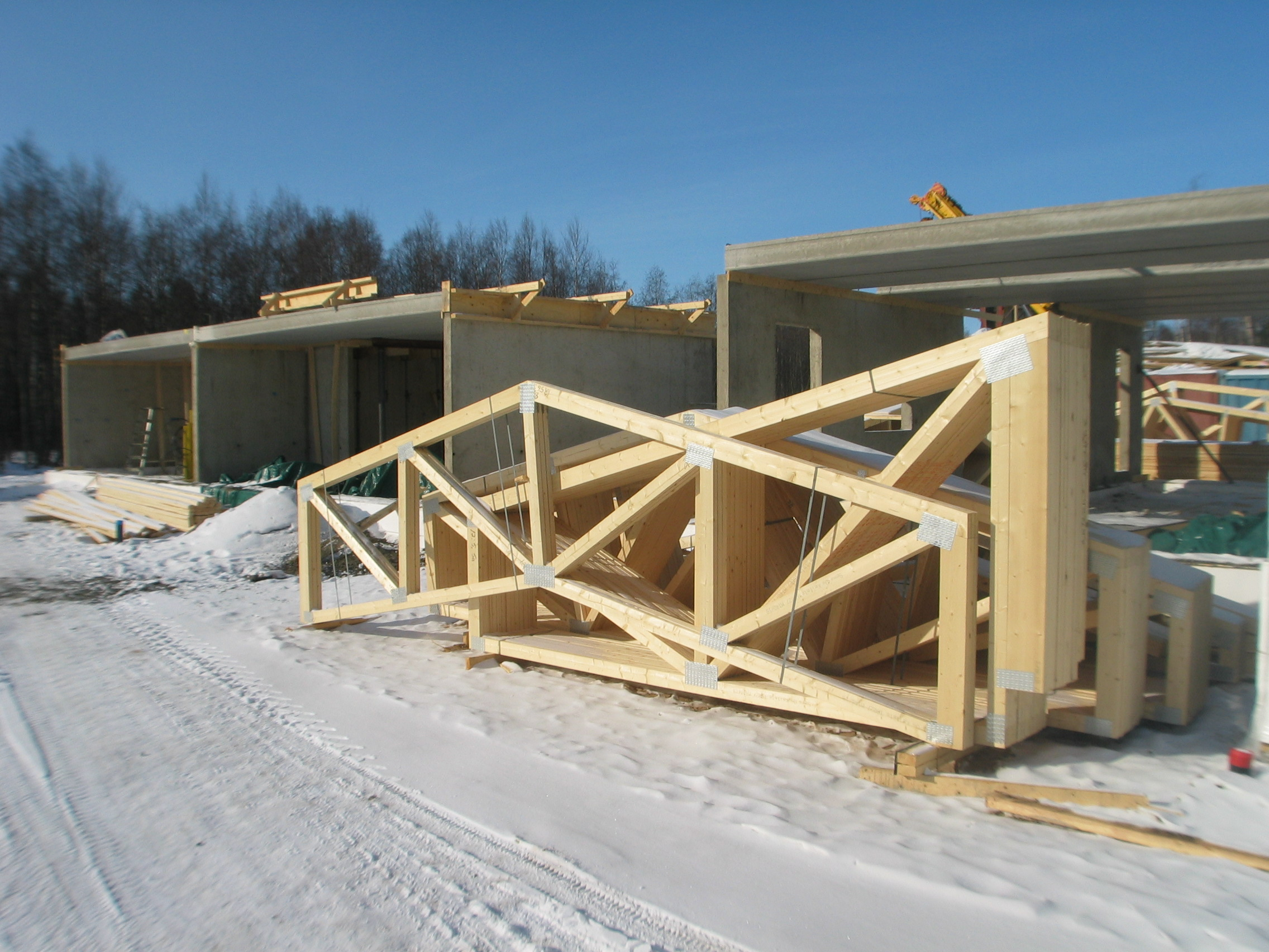 Prefabricated wooden trusses, nailed plate joints. Finland 2005.